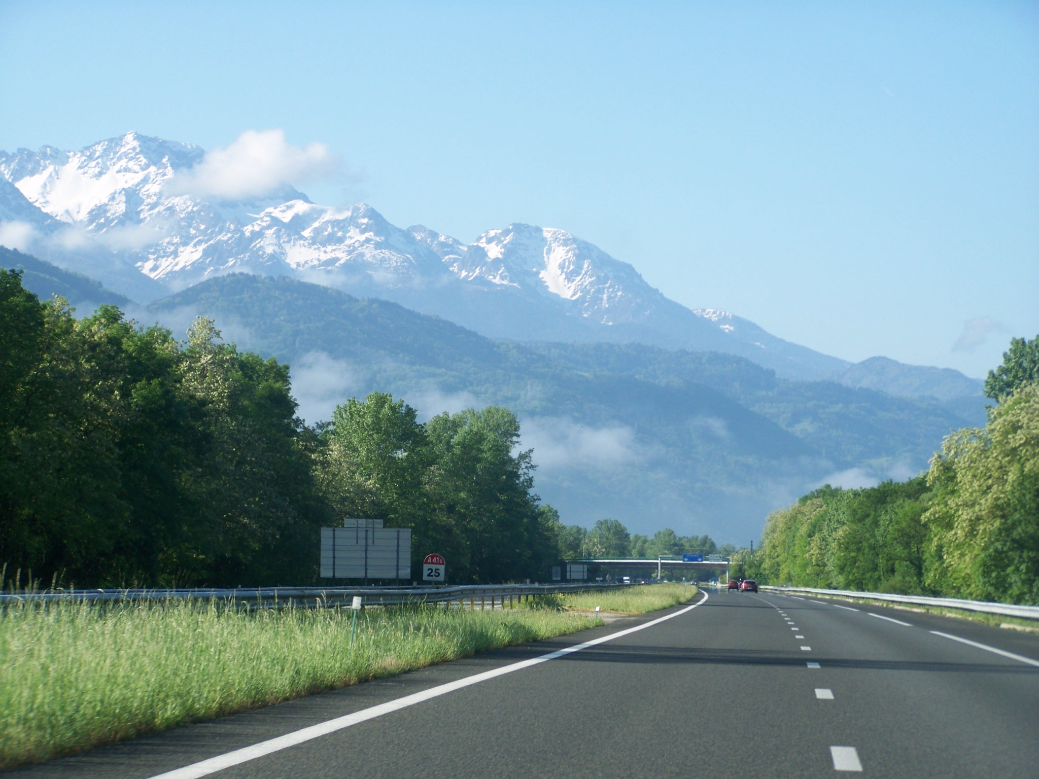 French motorway A41 between Chambéry and Grenoble in the Alps.